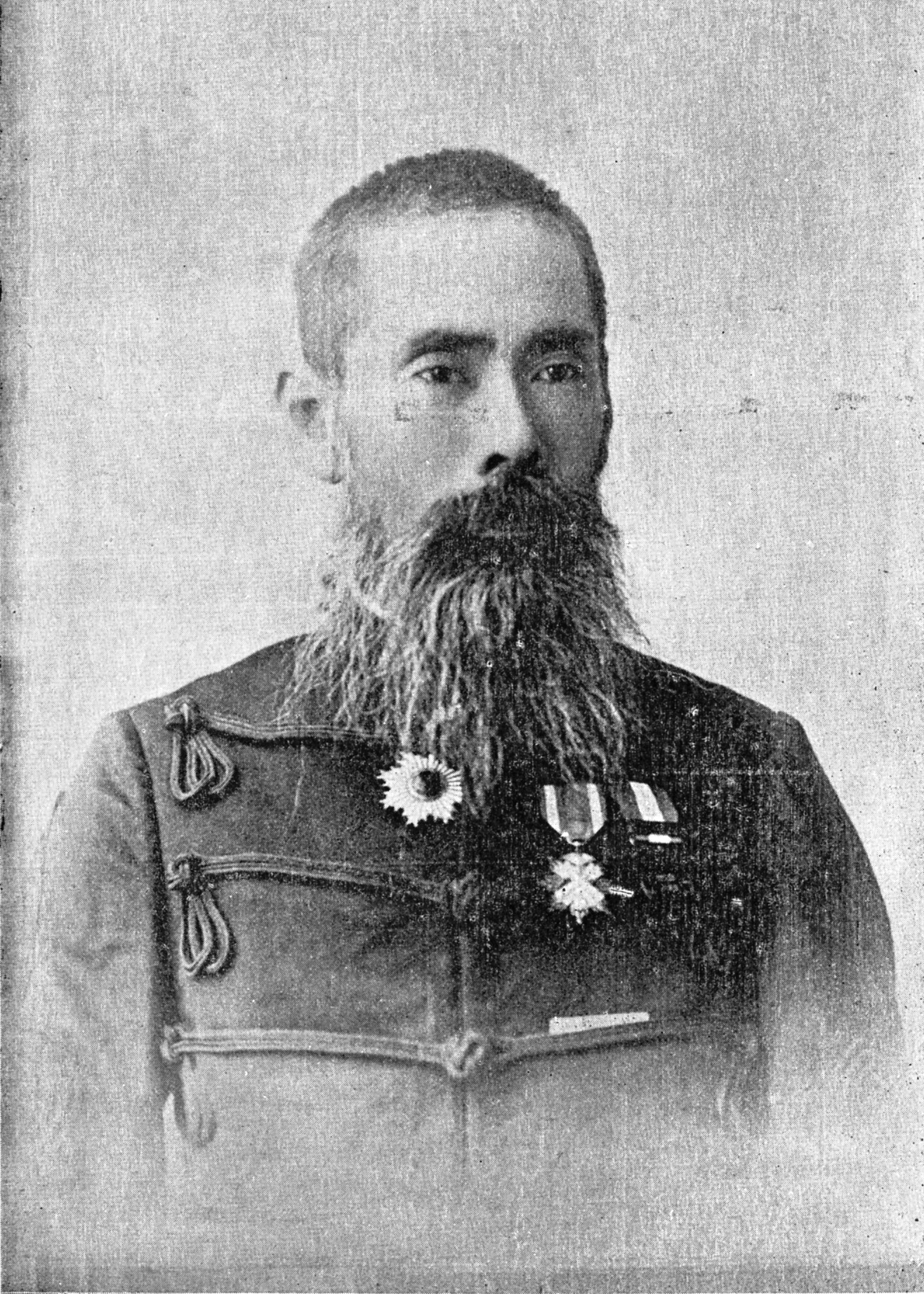 Satō Tadashi, the Court Councilor